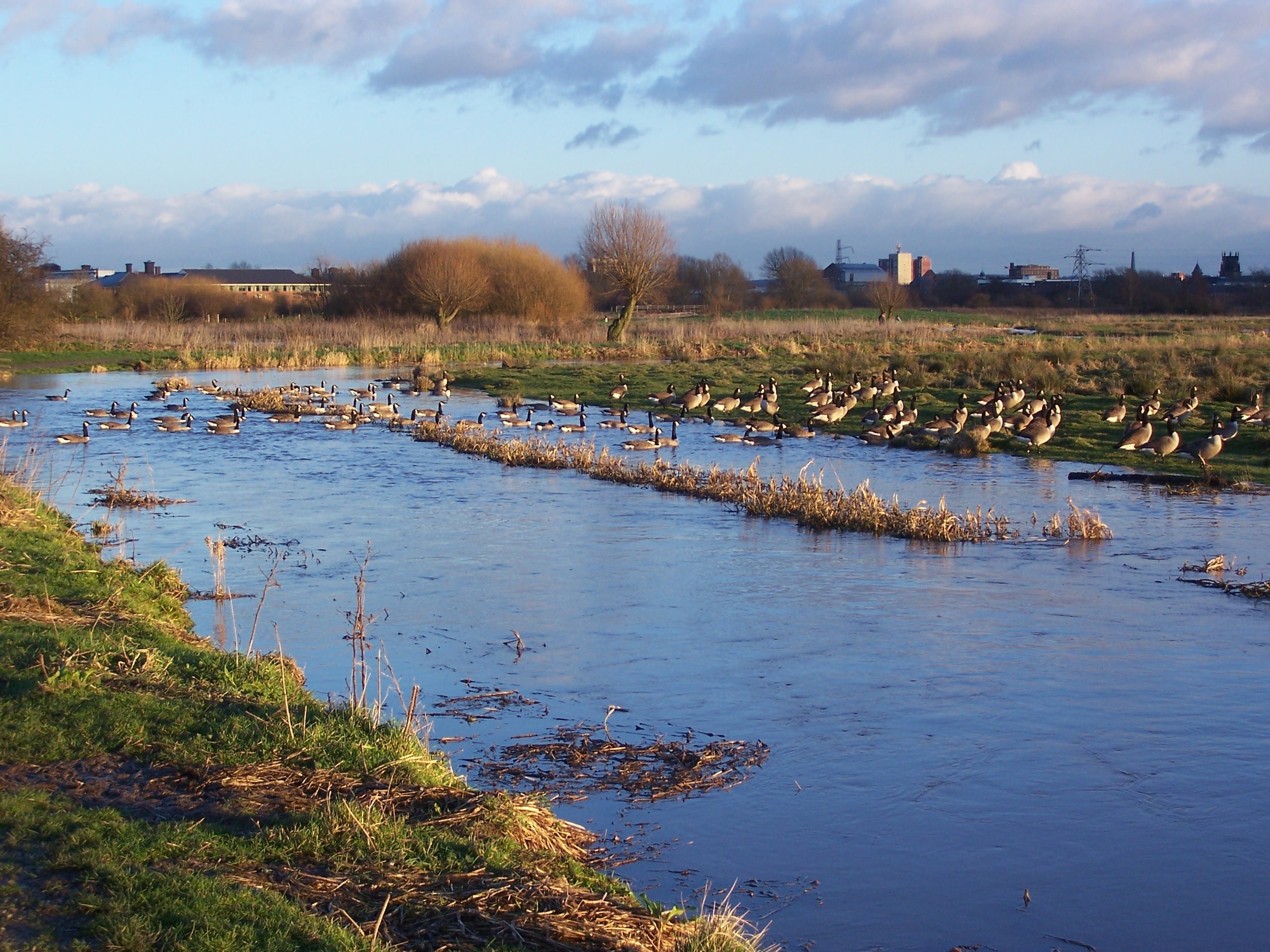 Doxey Marshes by Pete Hanley.